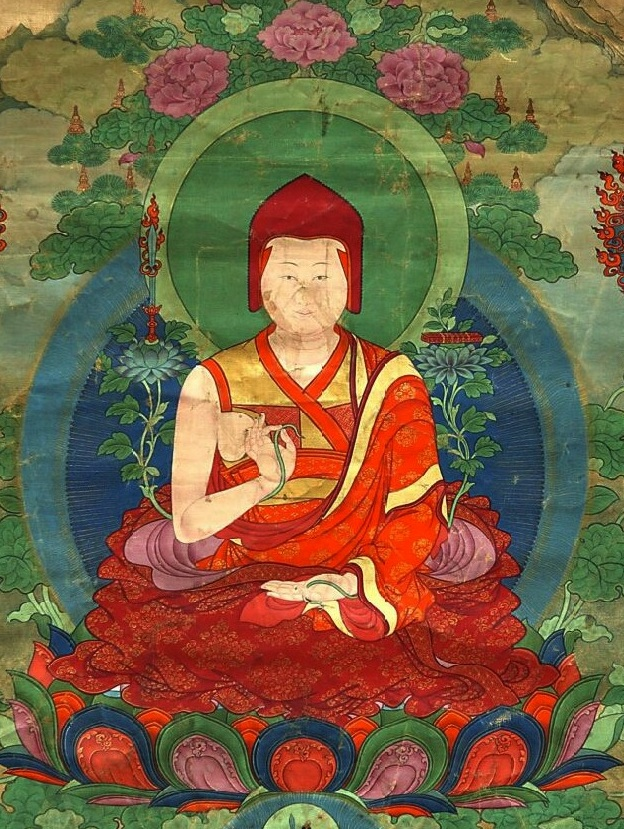 Khyungpo Naljor (b.1050 - d.1127) - famous Kadampa scholar